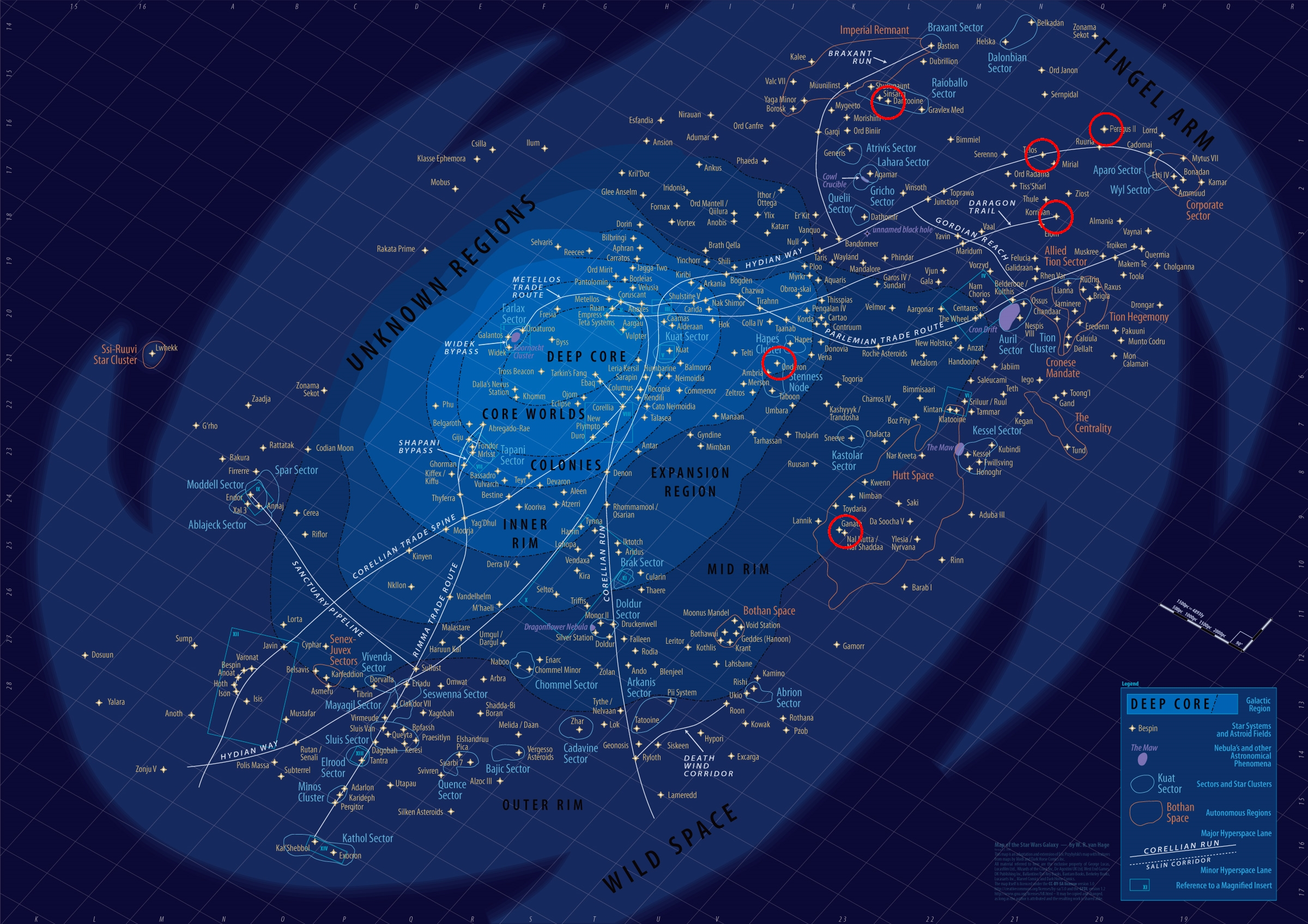 Locations of the video game Knights of the Old Republic 2